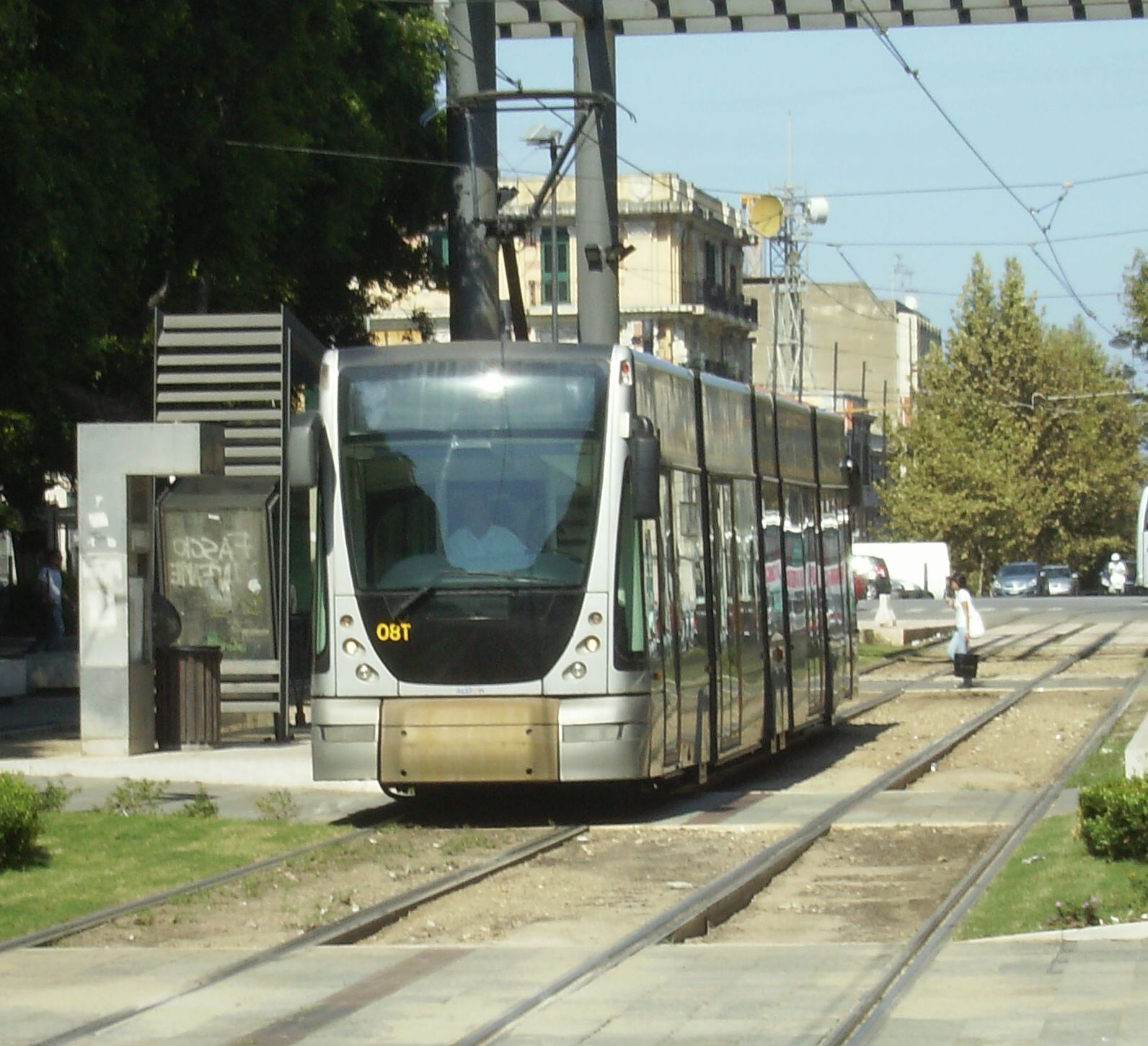 Messina tram